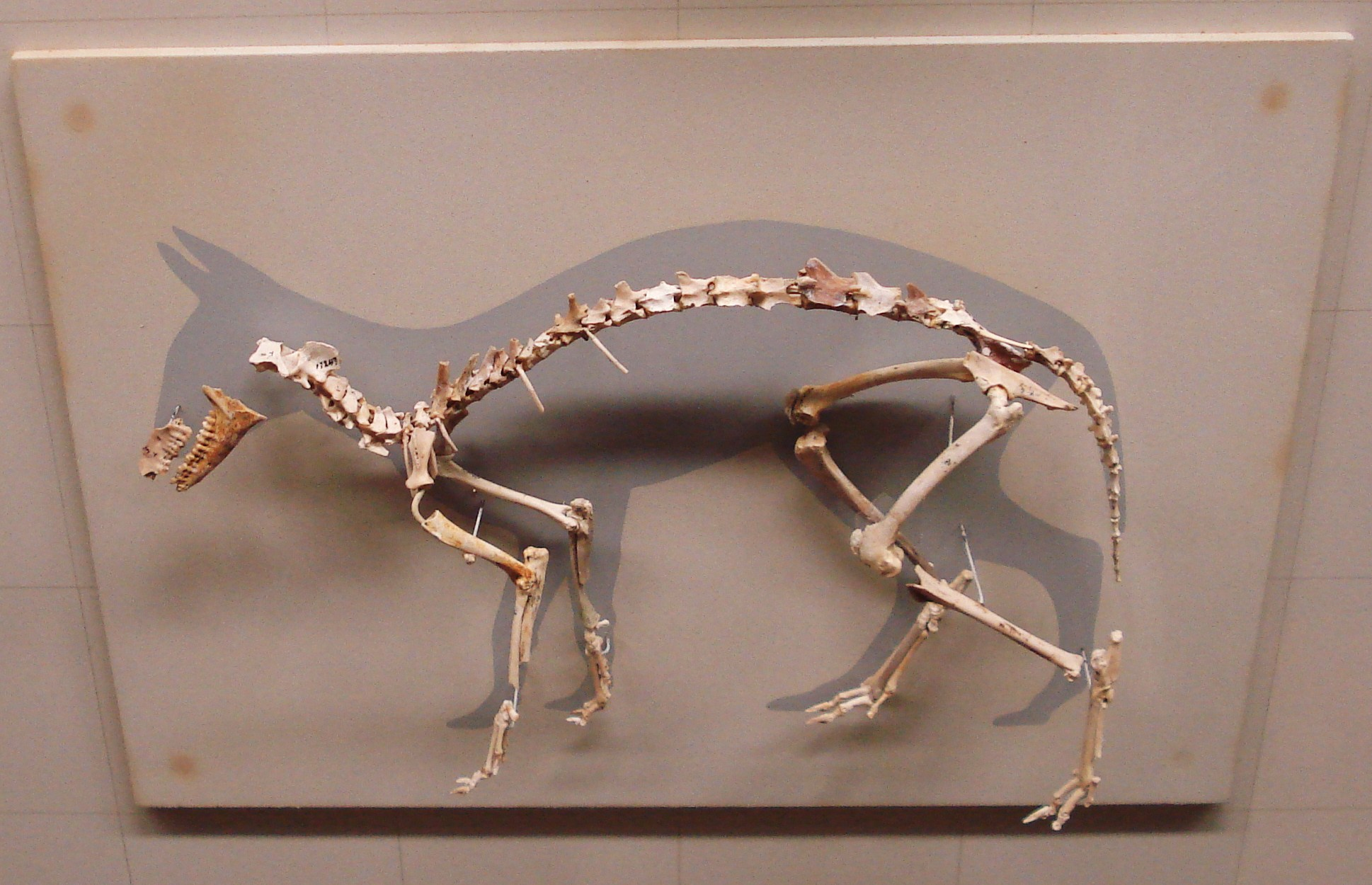 fossil of cainotherium